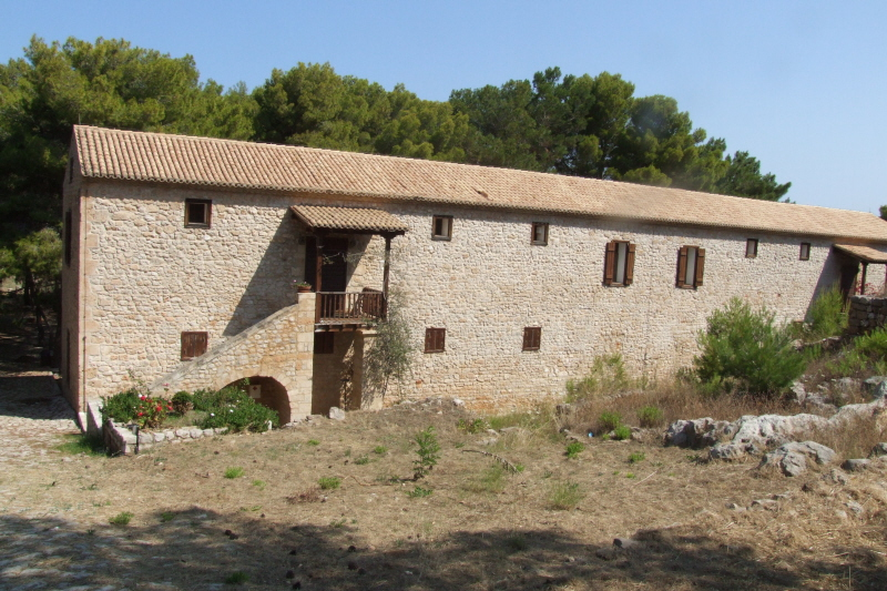 fortress from Pylos, Remember buildung for the battle of navarino